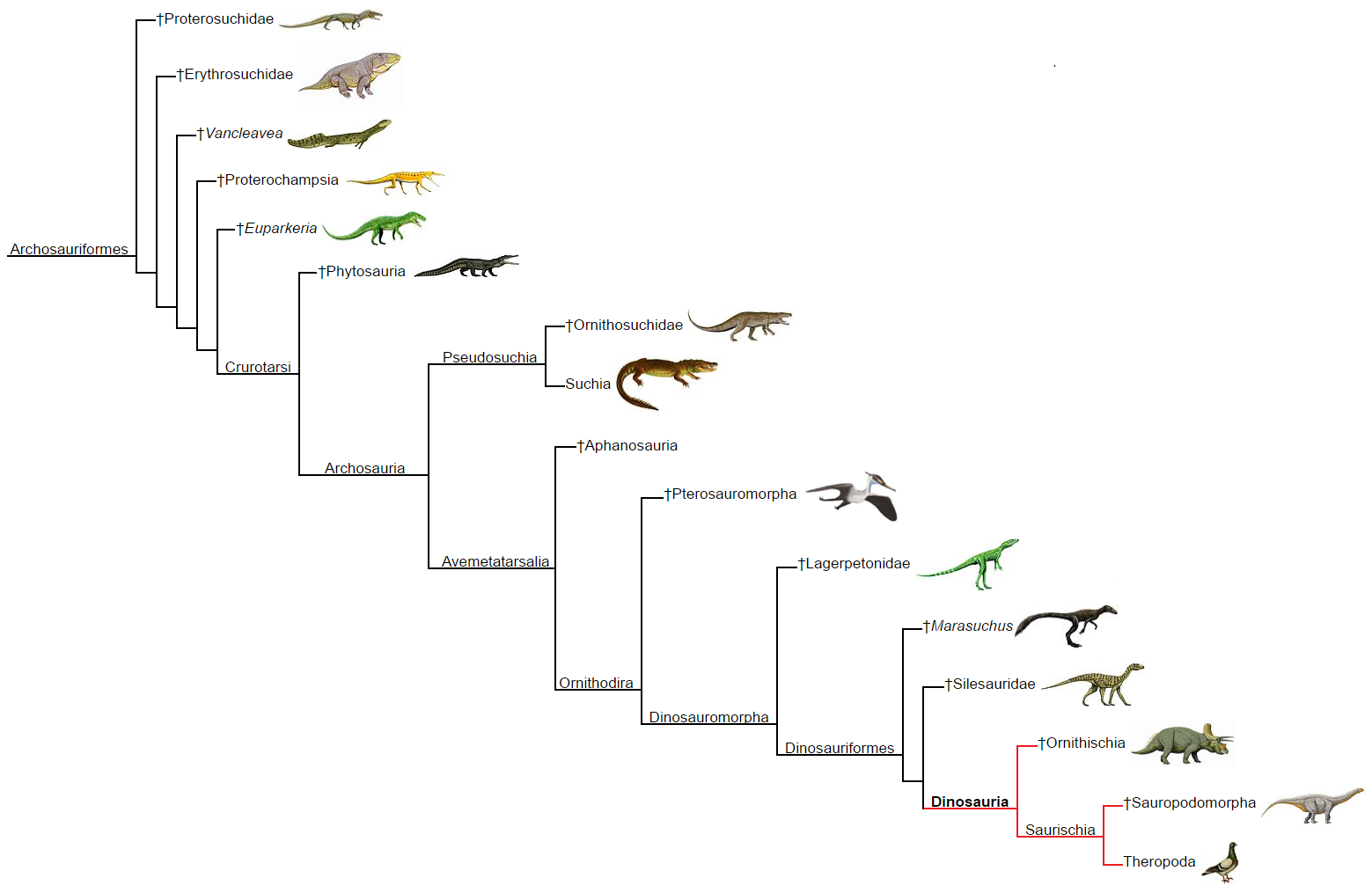 Phylogeny of Dinosauria within Archosauriformes